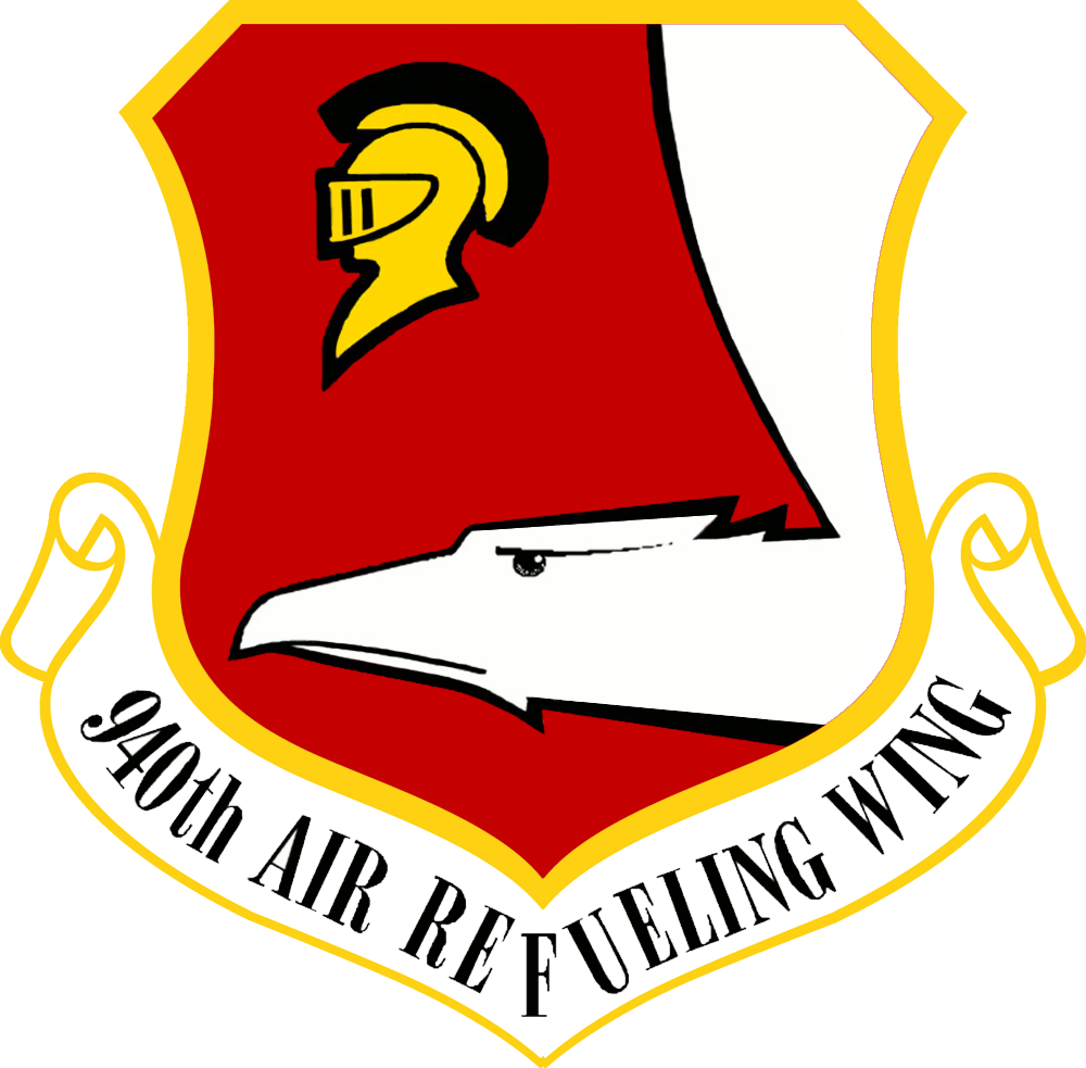 Emblem of the 940th Air Refueling Wing, a wing of the United States Air Force